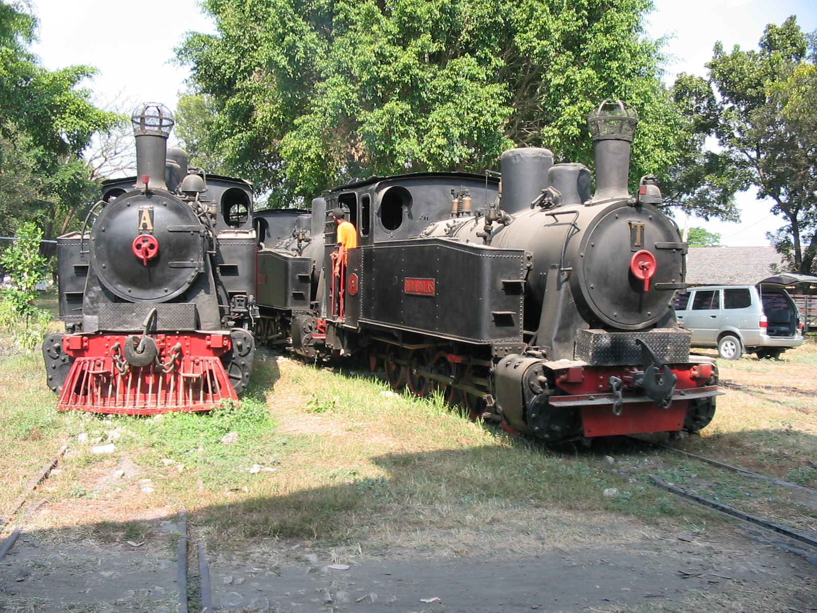 Three Berliner Maschinenbau steam locomotives on the Cepu Forest Railway in Central Java, Indonesia. These locomotives: B "Bahagia", T "Tudjubelas" and A: Agustus" were built in 1928 and are currently still active.